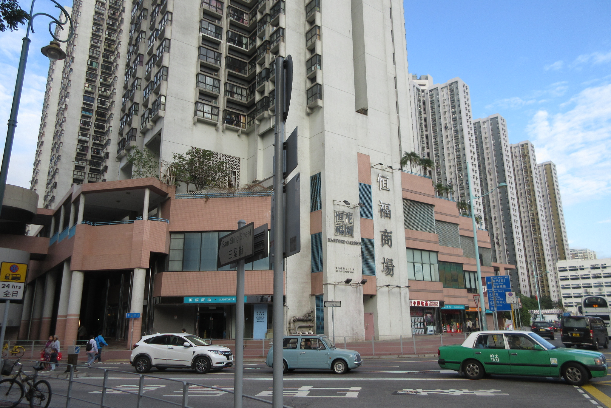 HK 屯門 Tuen Mun 青山公路 Castle Peak Road 恆福花園 Hanford Garden Plaza 三聖街 Sam Shing Street in December 2017